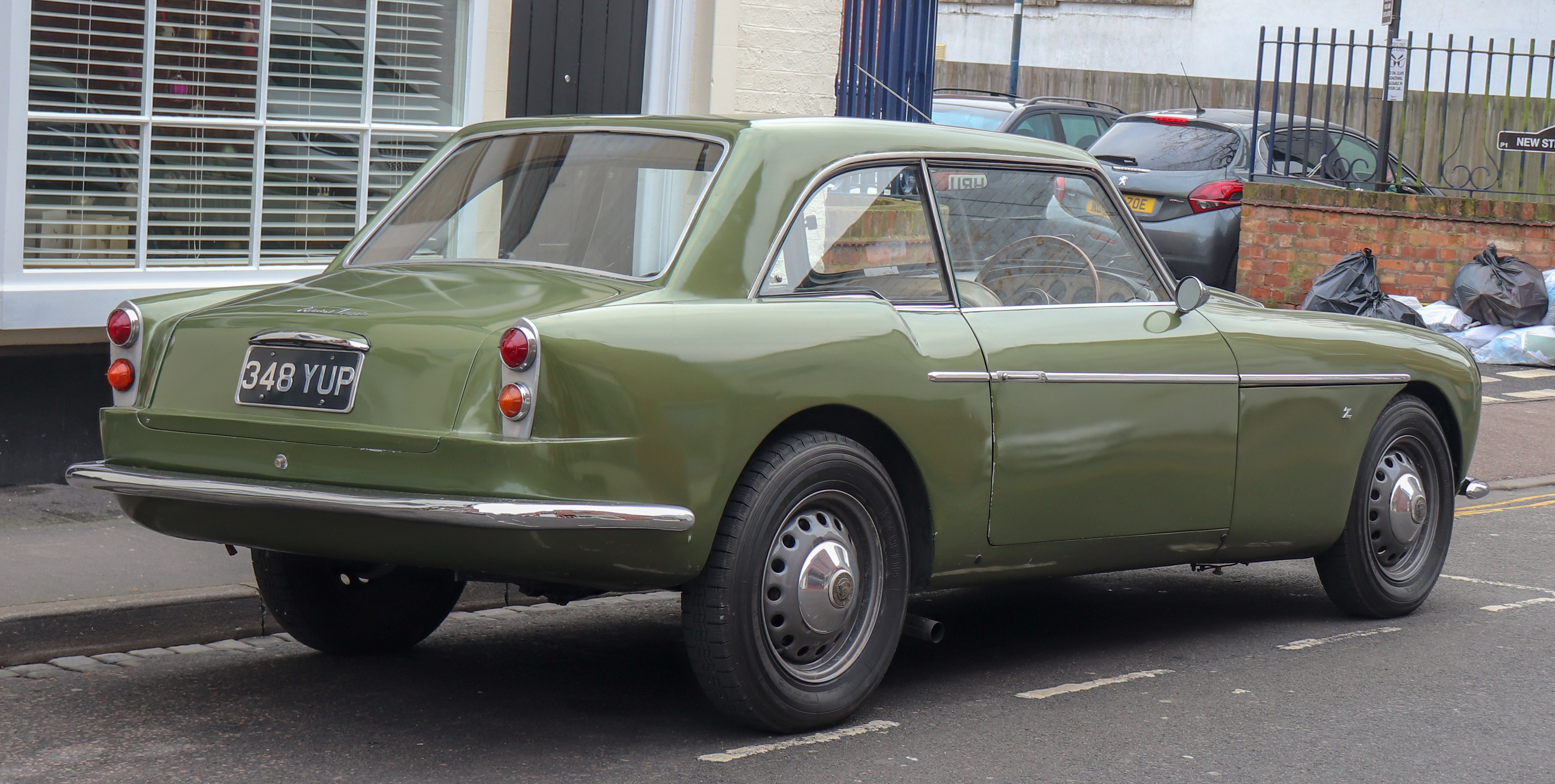 1959 Bristol 406 Zagato 2.2 Rear Taken in Warwick